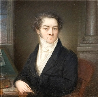 Self-portrait Swedish minature painter Anders Gustaf Andersson (1780-1833). Height 10cm, width 10.4 cm. Gouache on paper.